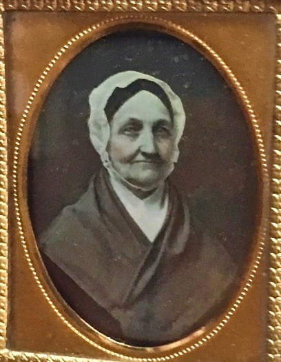 Hannah Taylor (1795-1880) Virginia Quaker wife of Yardley Taylor, mother of eight children